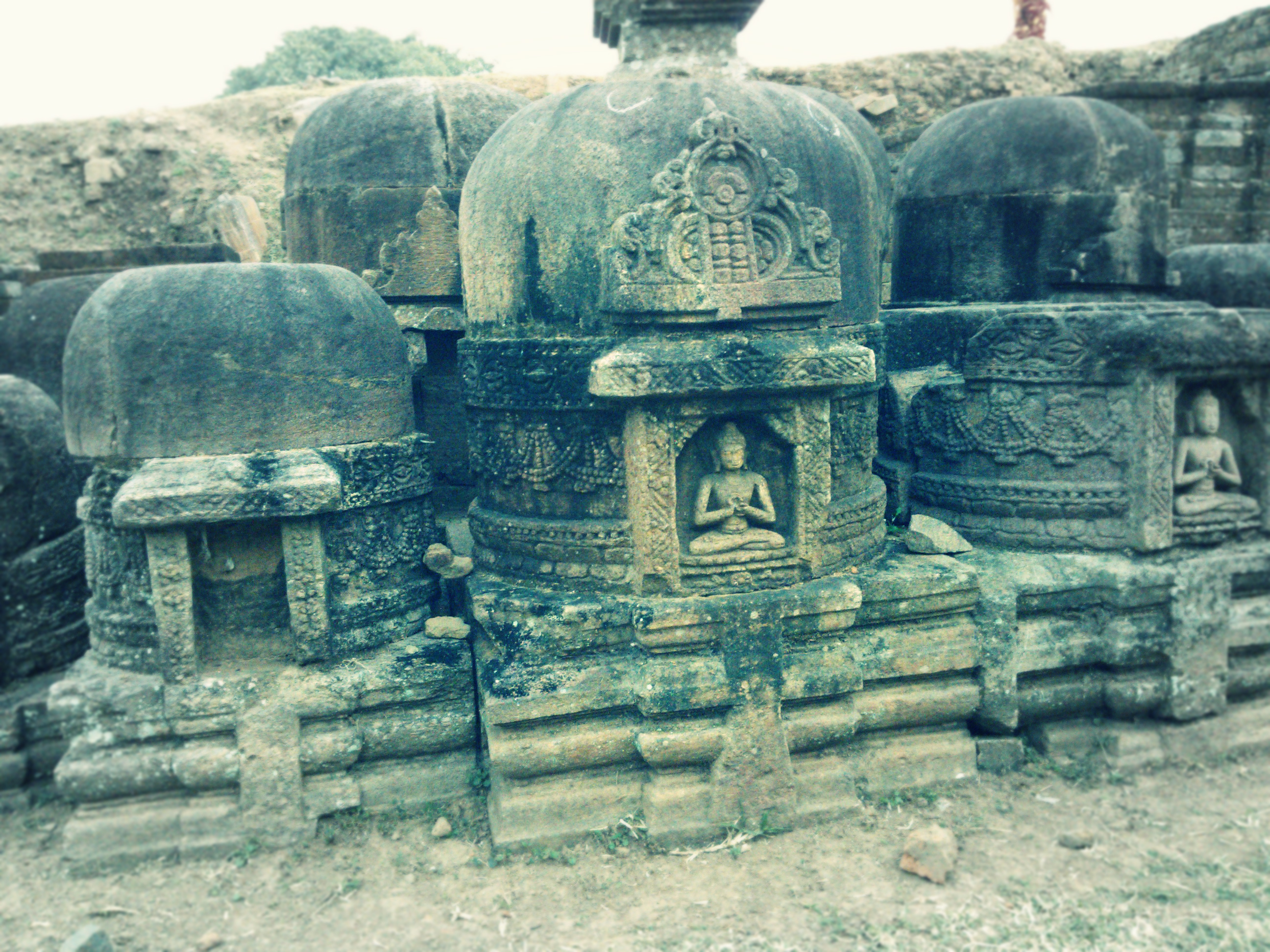 Stupas at Ratnagiri